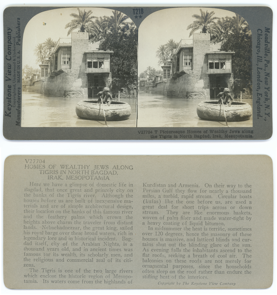 Title: Picturesque Homes of Wealthy Jews along the Tigris in North Bagdad, Irak, Mesopotamia. Creator: Unknown Date: 1890s-1900s Part Of: Place: Baghdad, Iraq Physical Description: 1 photographic print on stereo card: gelatin silver; 9 x 18 cm File: ag2000_1296_02_d08_iraq_03c_tigris.jpg Rights: Please cite DeGolyer Library, Southern Methodist University when using this file. A high-resolution version of this file may be obtained for a fee. For details see the web page. For other information, . For more information and to view the image in high resolution, View the